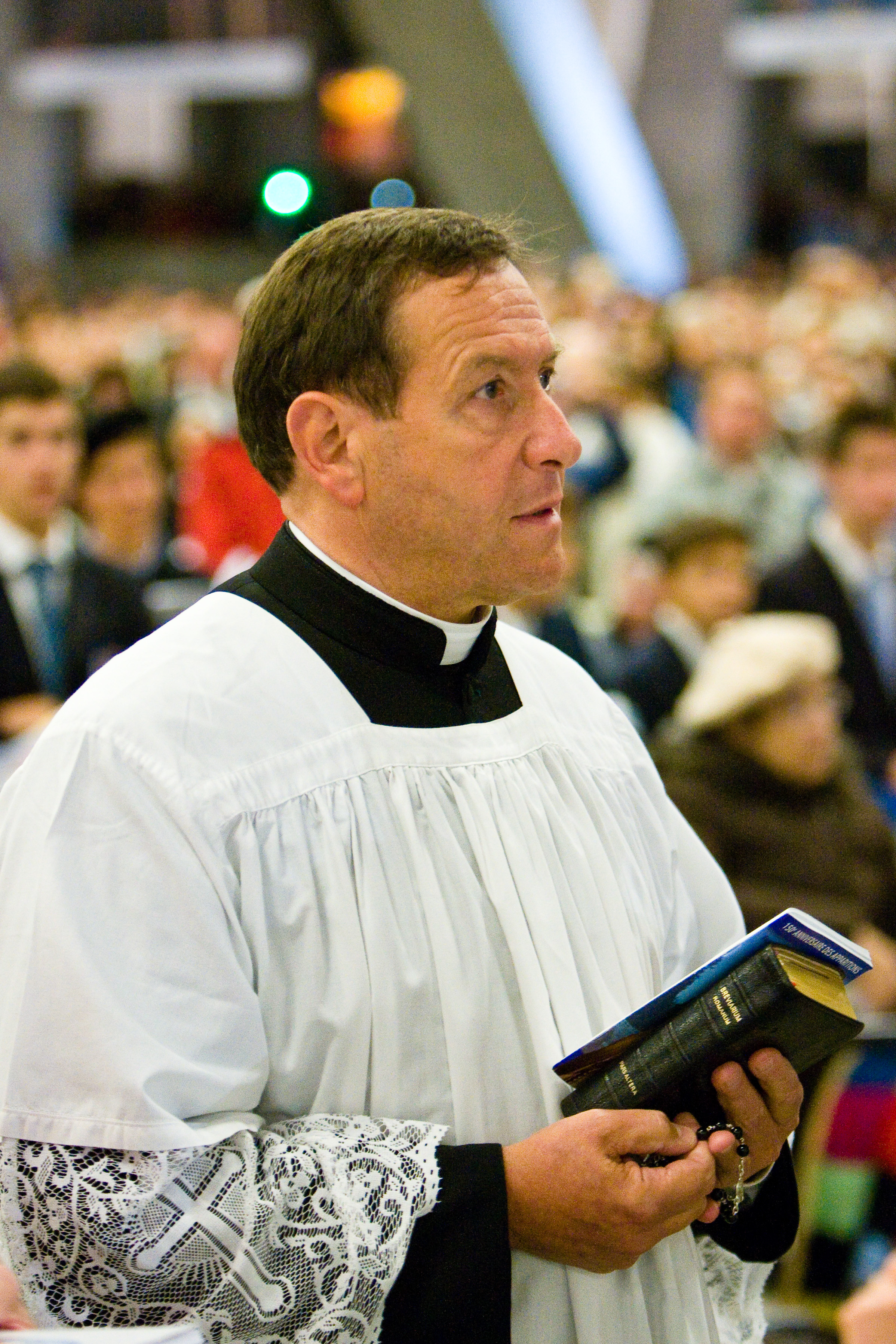 Father Alain-Marc Nély, FSSPX - Lourdes (France) 2008